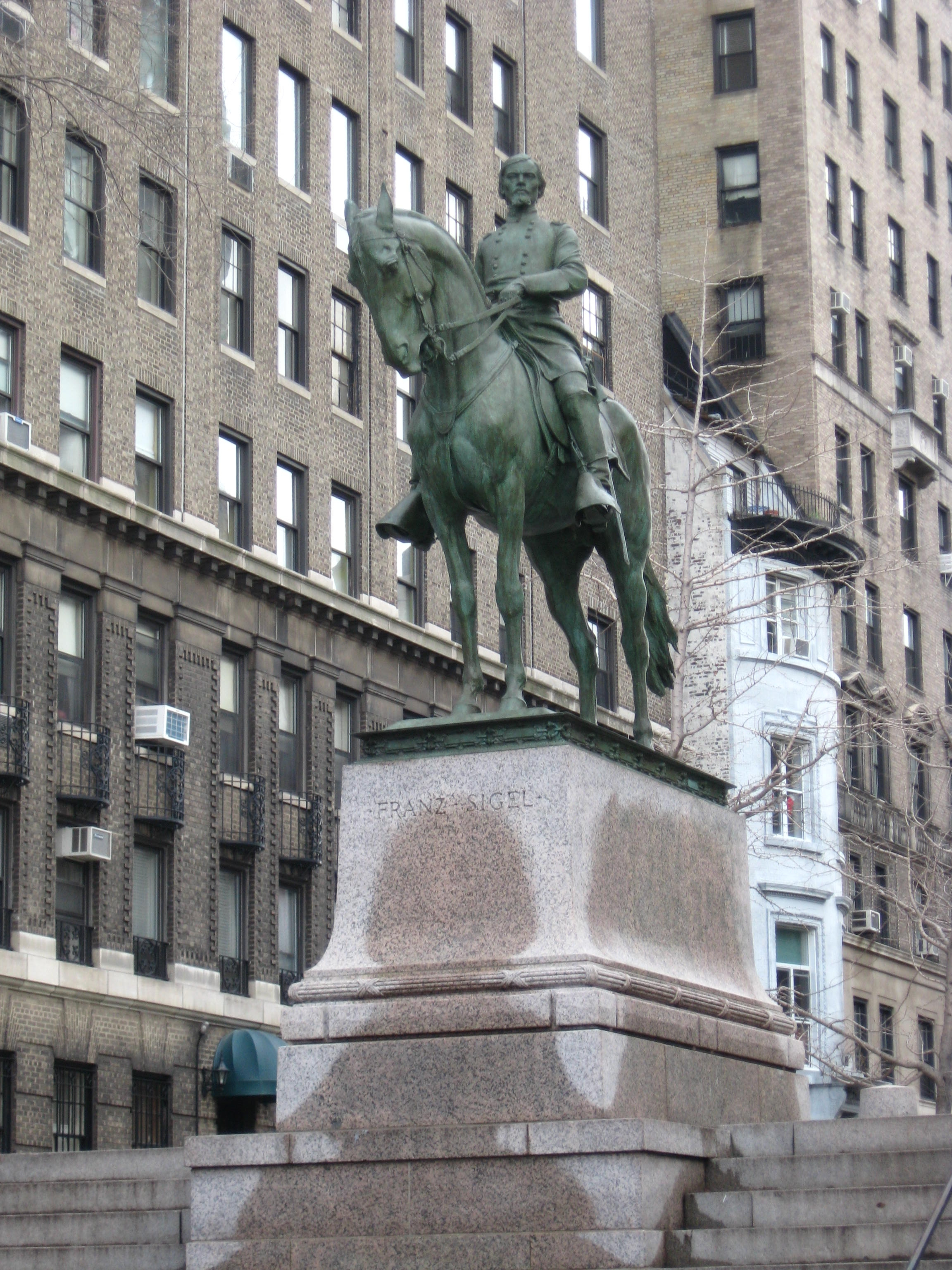 Looking east and up at statue of Franz Sigel on a cloudy afternoon on Riverside Drive, Manhattan. See also File:Franz Sigel 106 RSD jeh.JPG